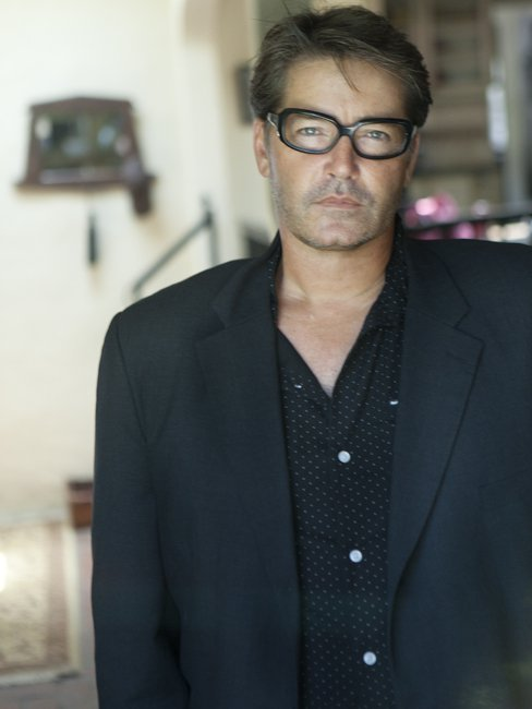 Jack Grisham, lead singer for the band "True Sounds of Liberty" (TSOL.)